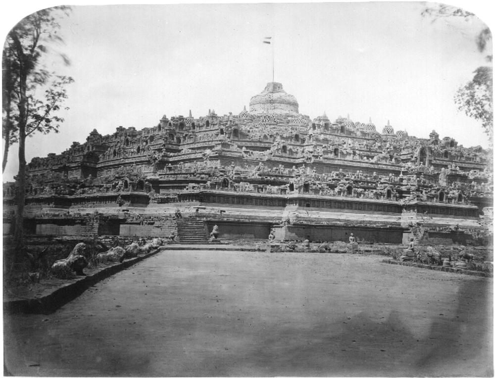 A photograph of Borobudur, taken by a Dutch photographer, Isidore van Kinsbergen. The picture also shows the Dutch flag on top of the main dome.